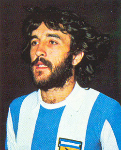 Ricardo Villa photo for a card collection.